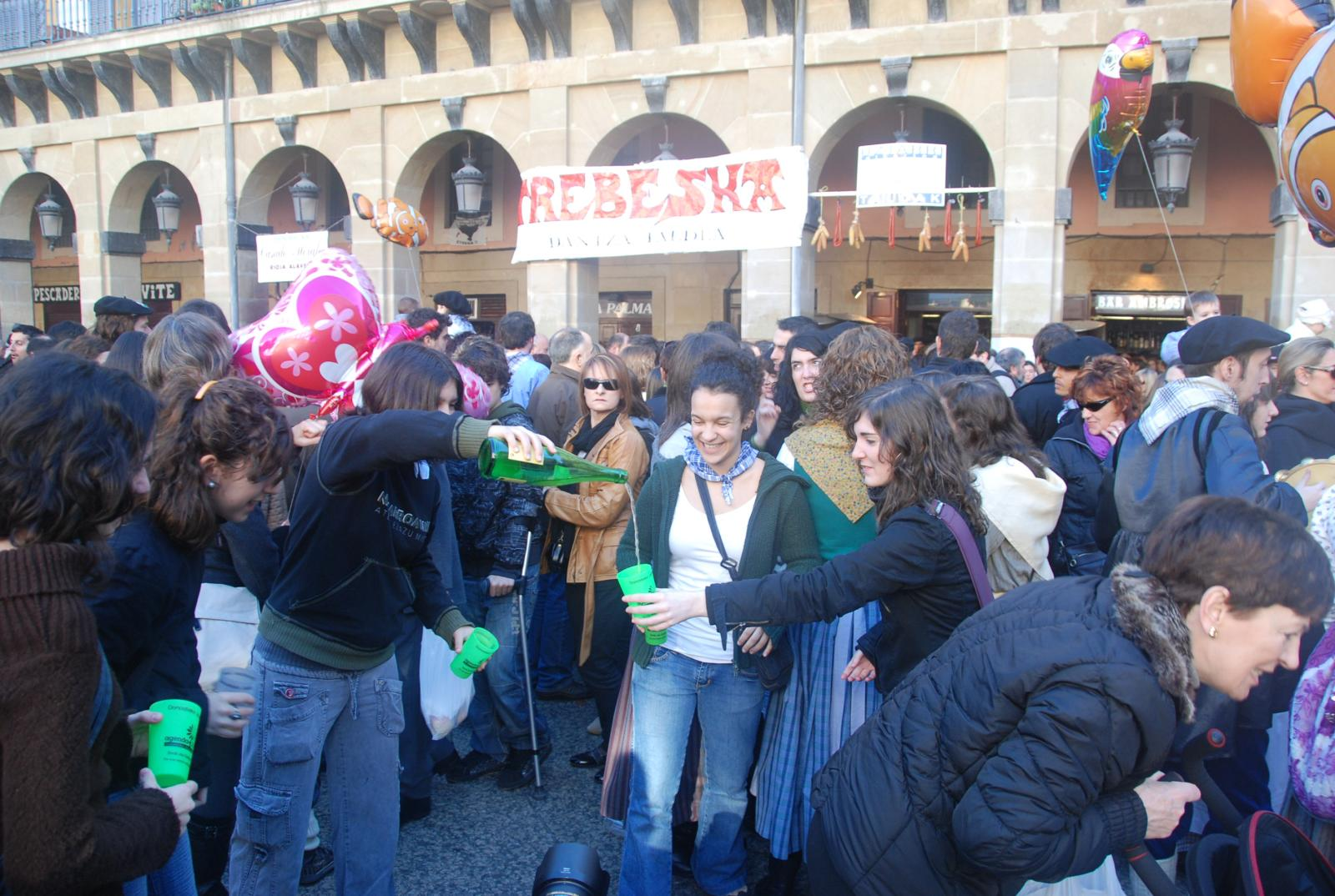 San Tomas festival in Donostia.